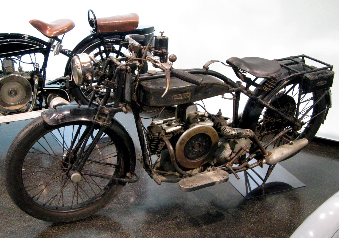 Bison motorcycle (1920) with BMW engine